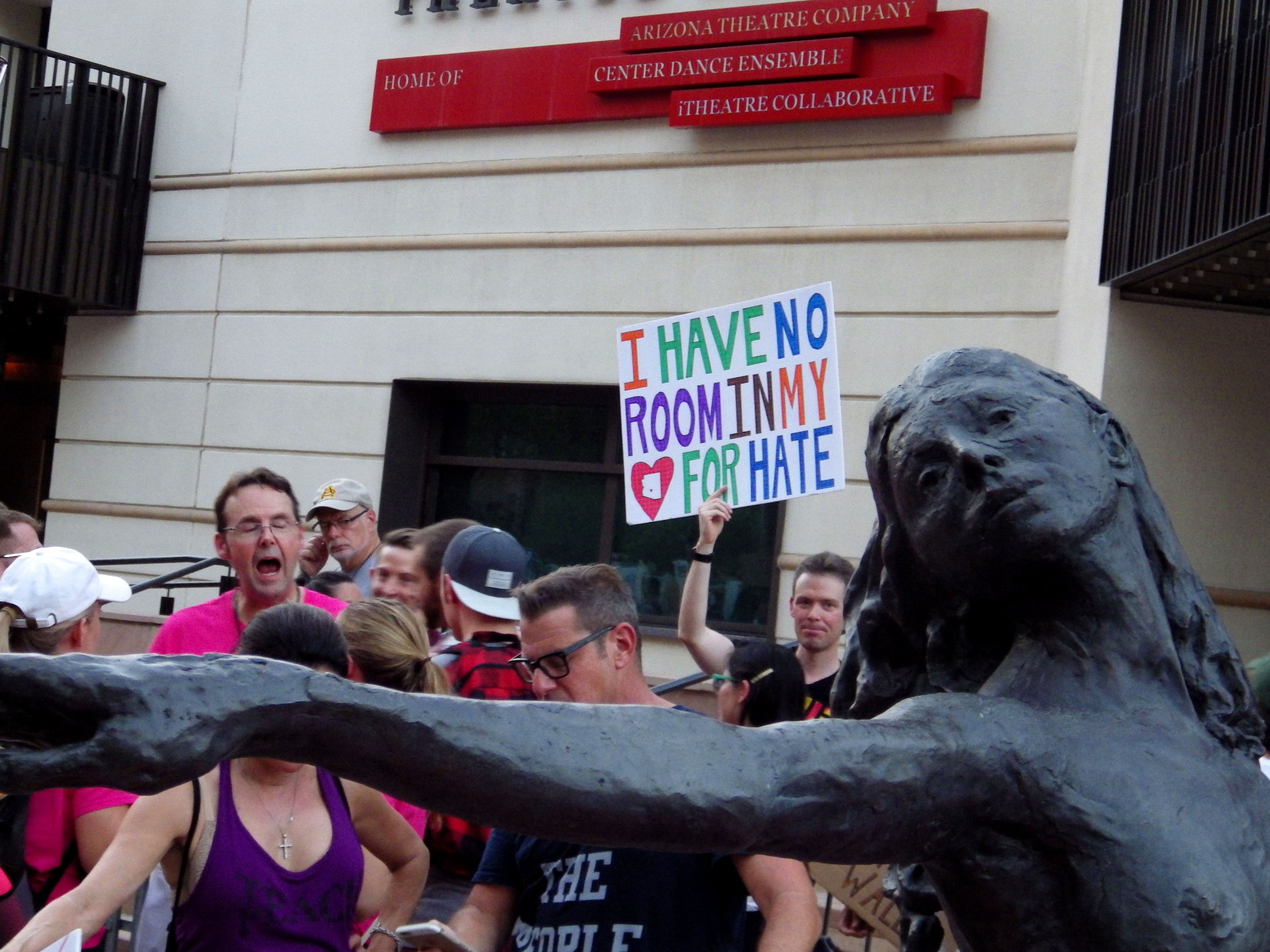 Protest against Donald Trump in Phoenix AZ, USA 8/22/17